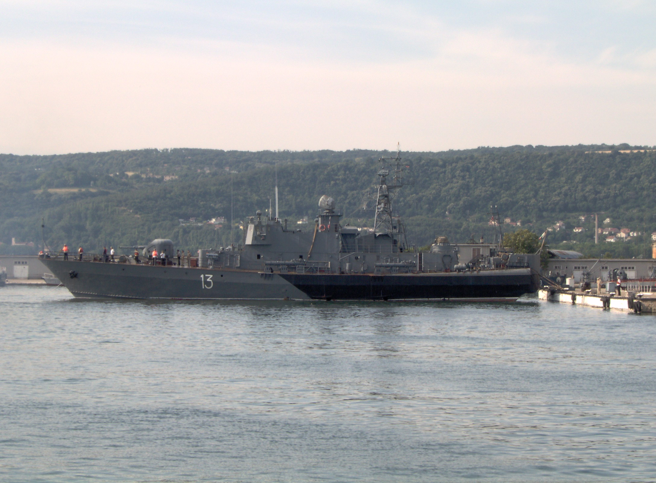 Bulgarian small anti-submarine ship project 1241.2E Reshitelni in Varna.